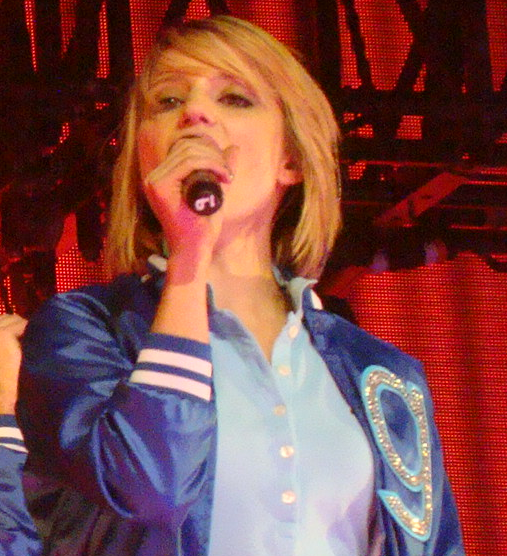 Dianna Agron as Quinn Fabray, performing "Somebody to Love" on the Glee Live! In Concert! tour.